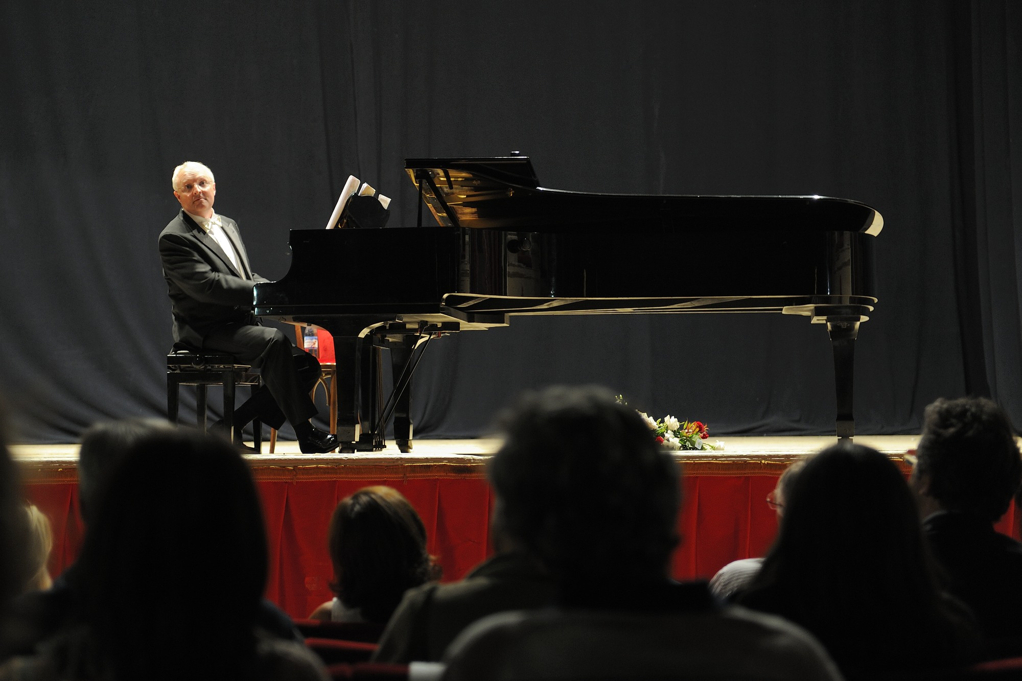 Peter Hicks performing in Sarzana